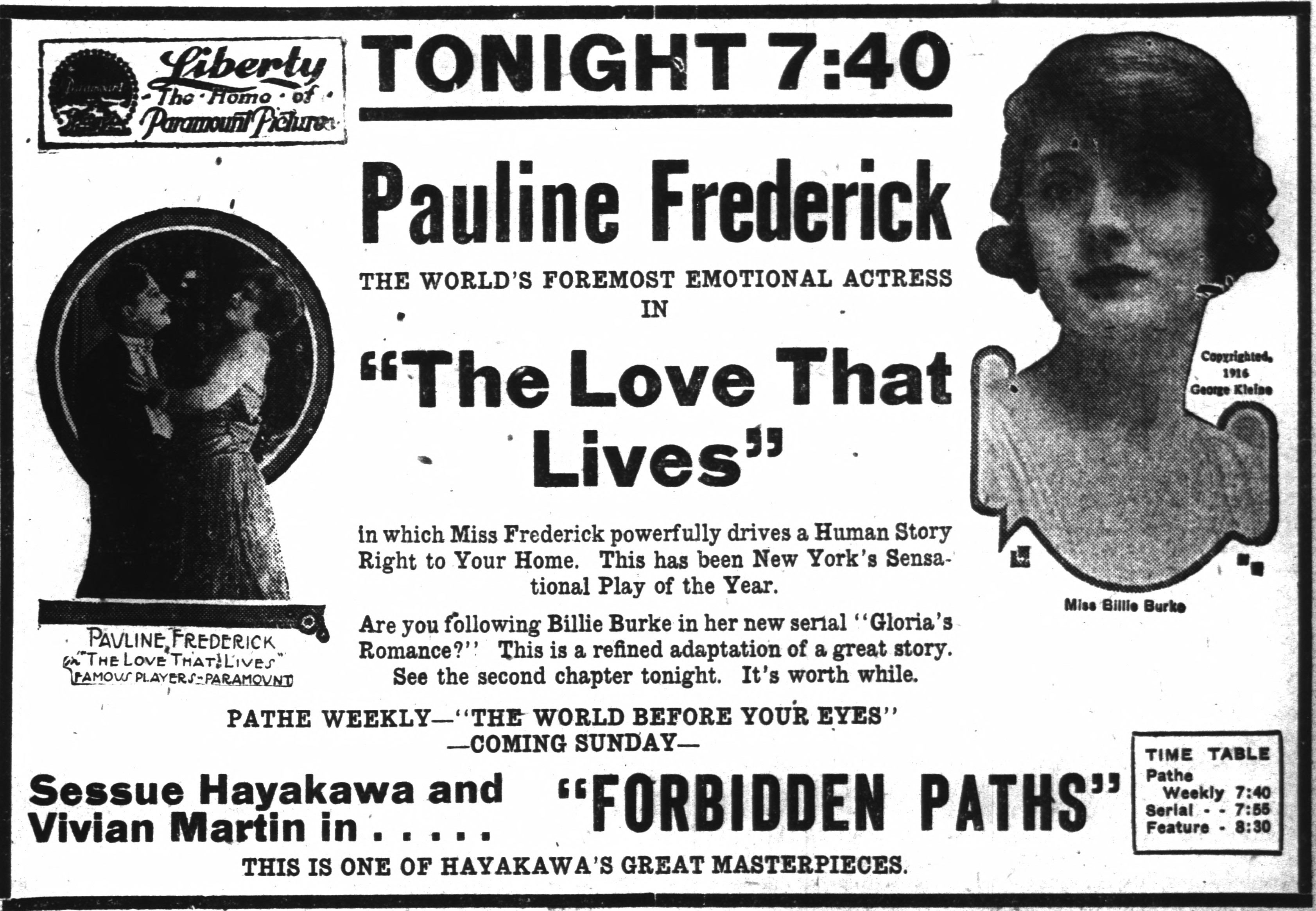 The Love That Lives 1917 newspaper advertisement